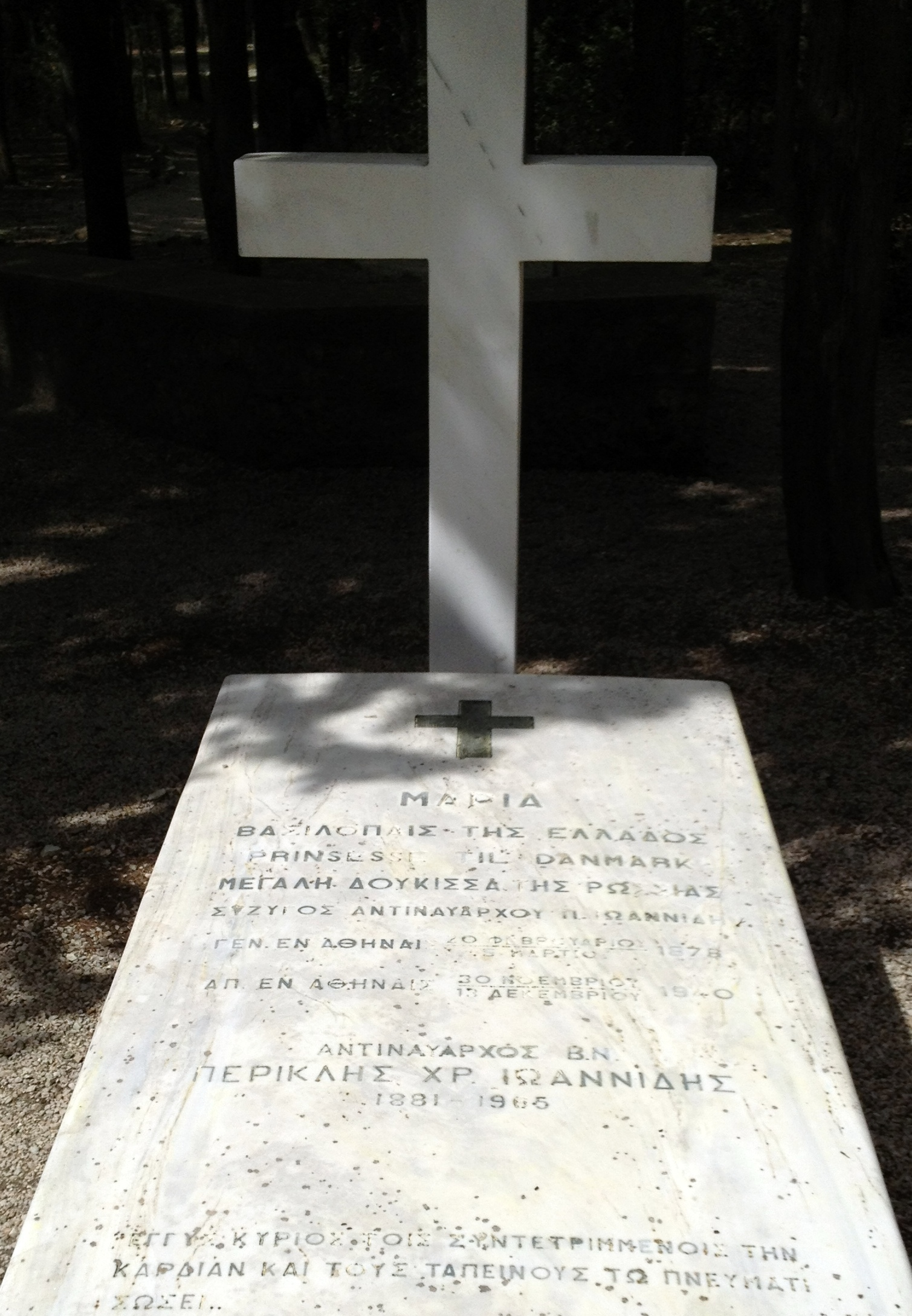 Tomb of Maria Georgievna of Russia